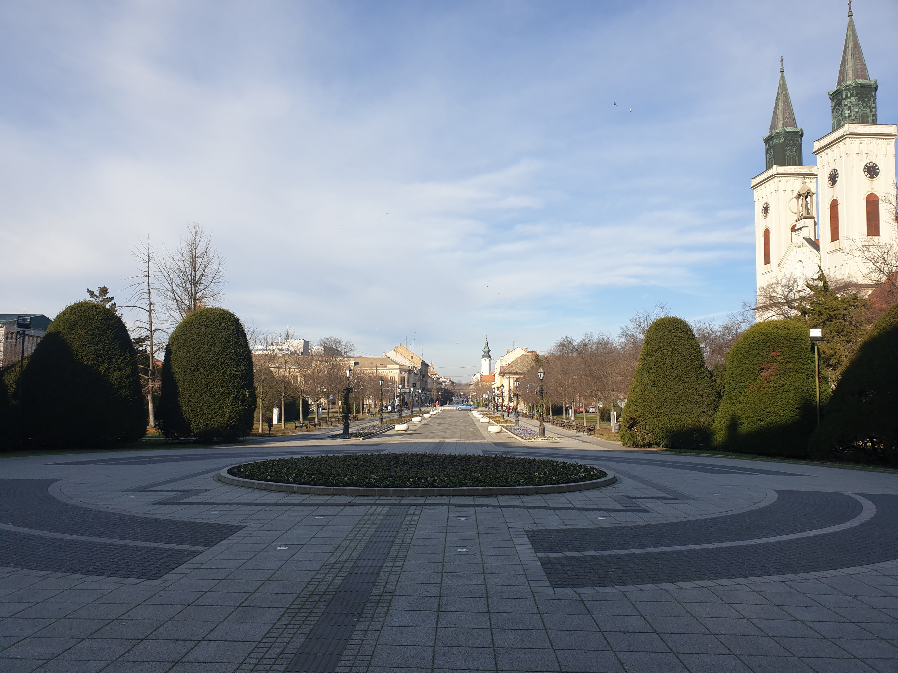 Županijski trg